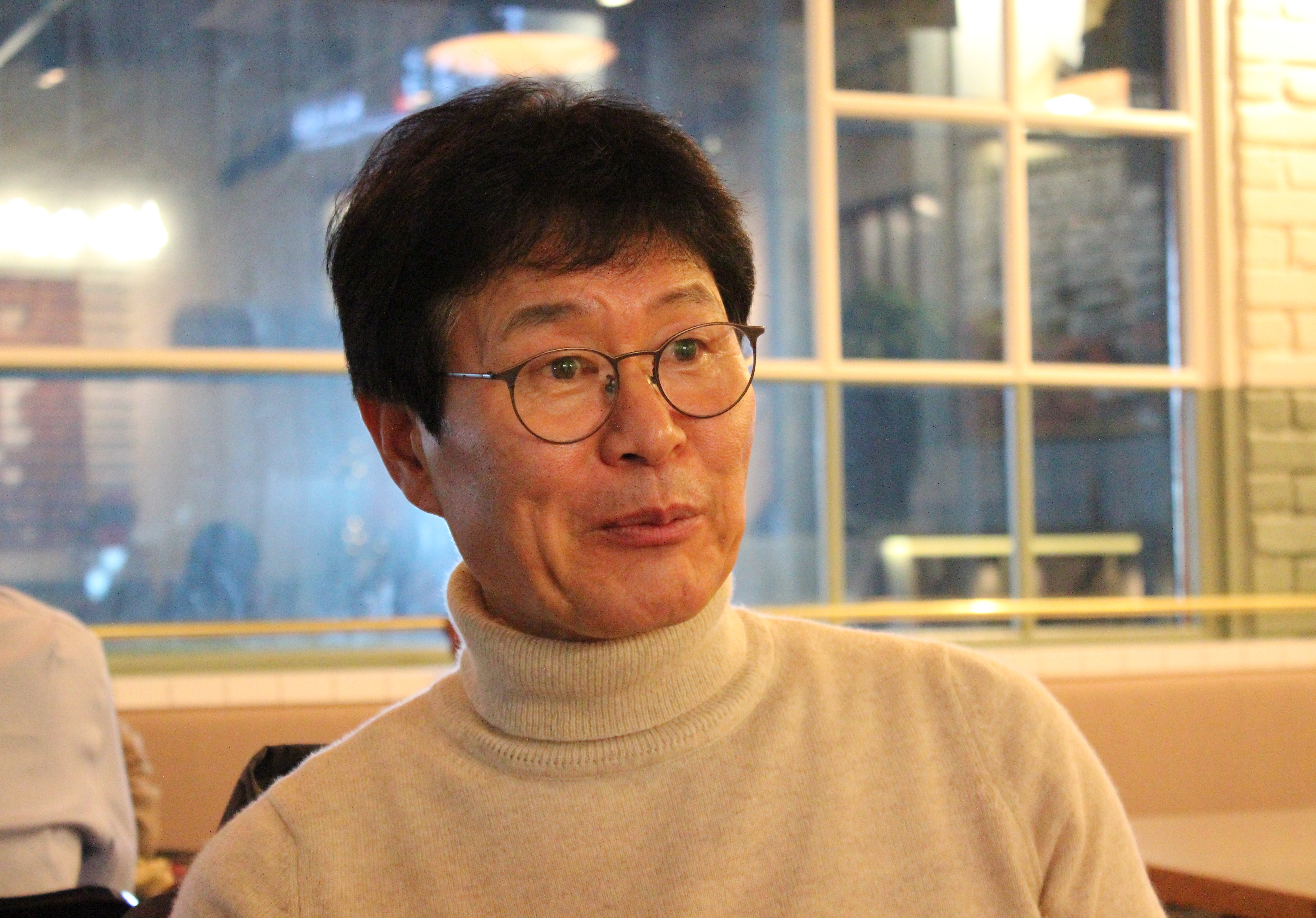 Professor YungSun Kim of Hyubsong University 15th December in 2017